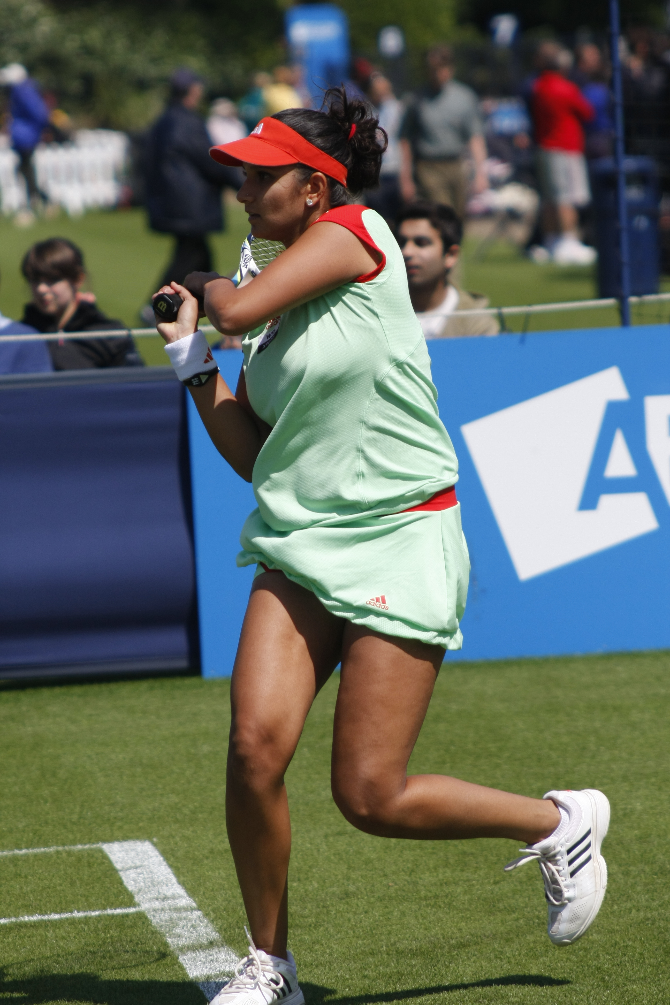 Sania Mirza - Aegon International Tennis, June 2012, Eastbourne